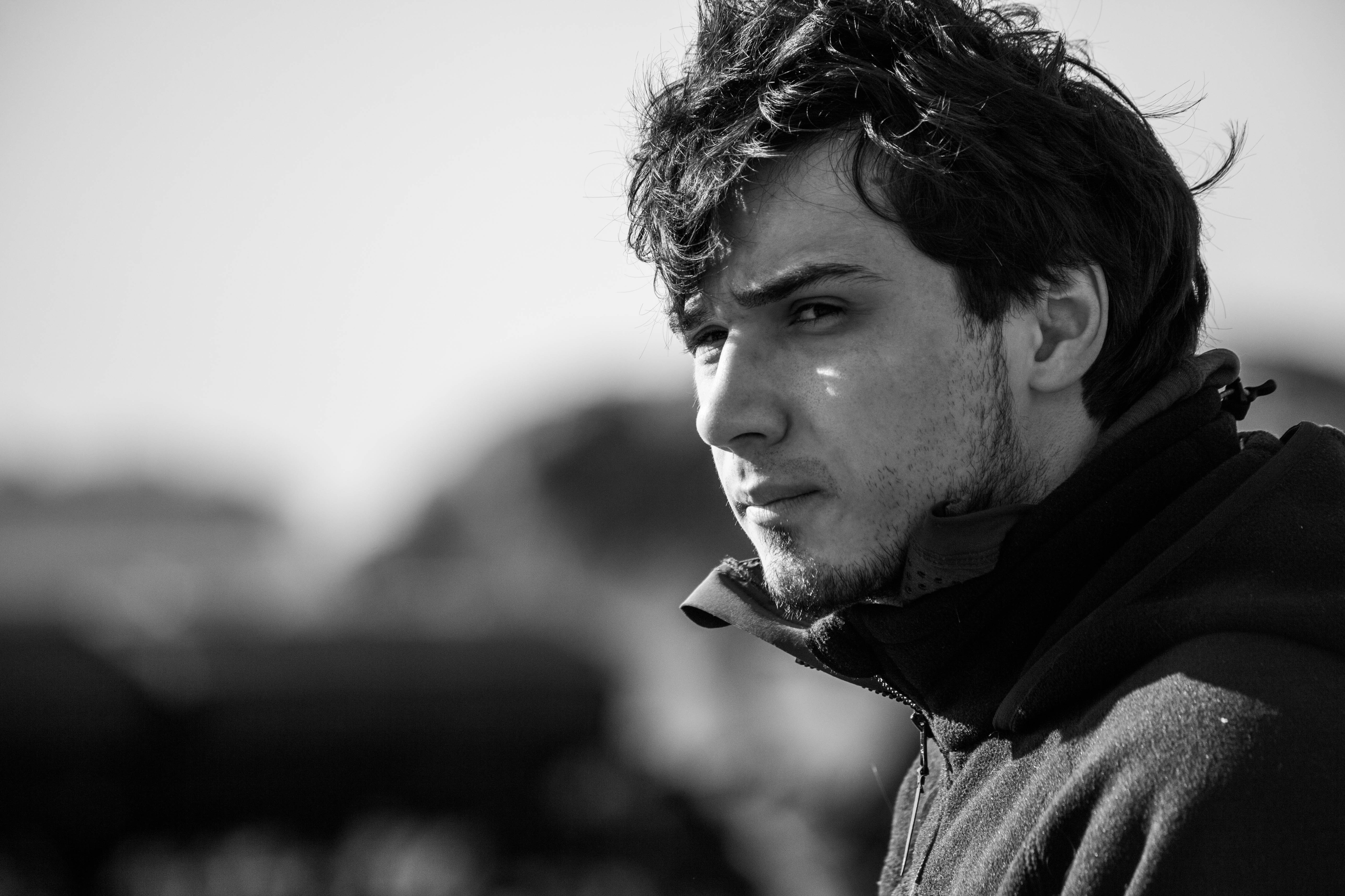 Sebastian Thaler at work